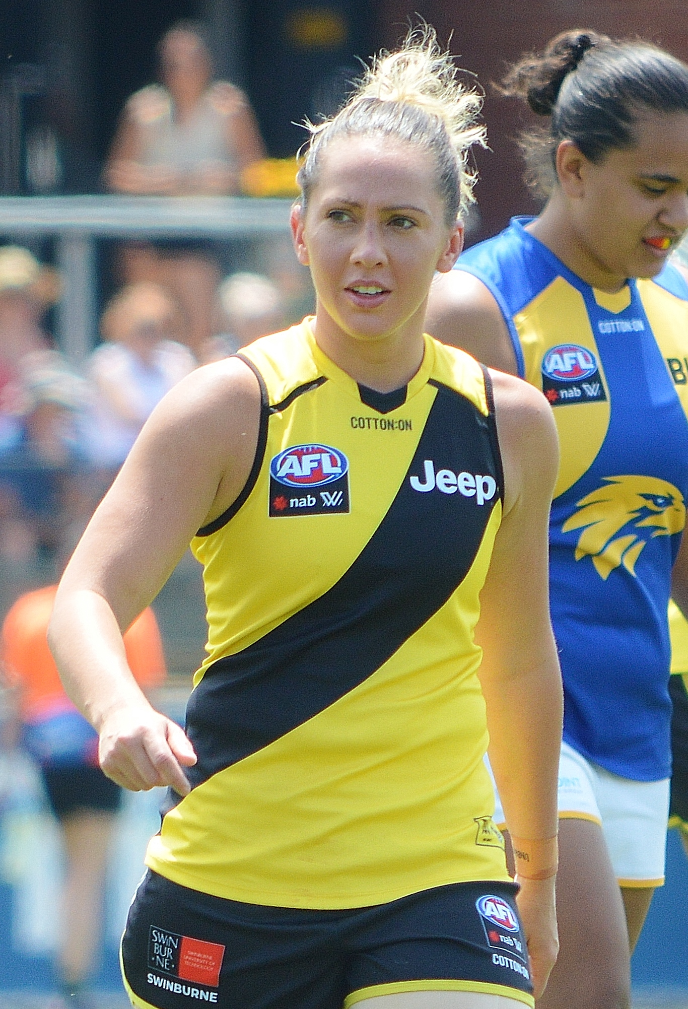 Laura Bailey with Richmond during a pre-season AFL Women's match against West Coast at Punt Road Oval in January 2020.